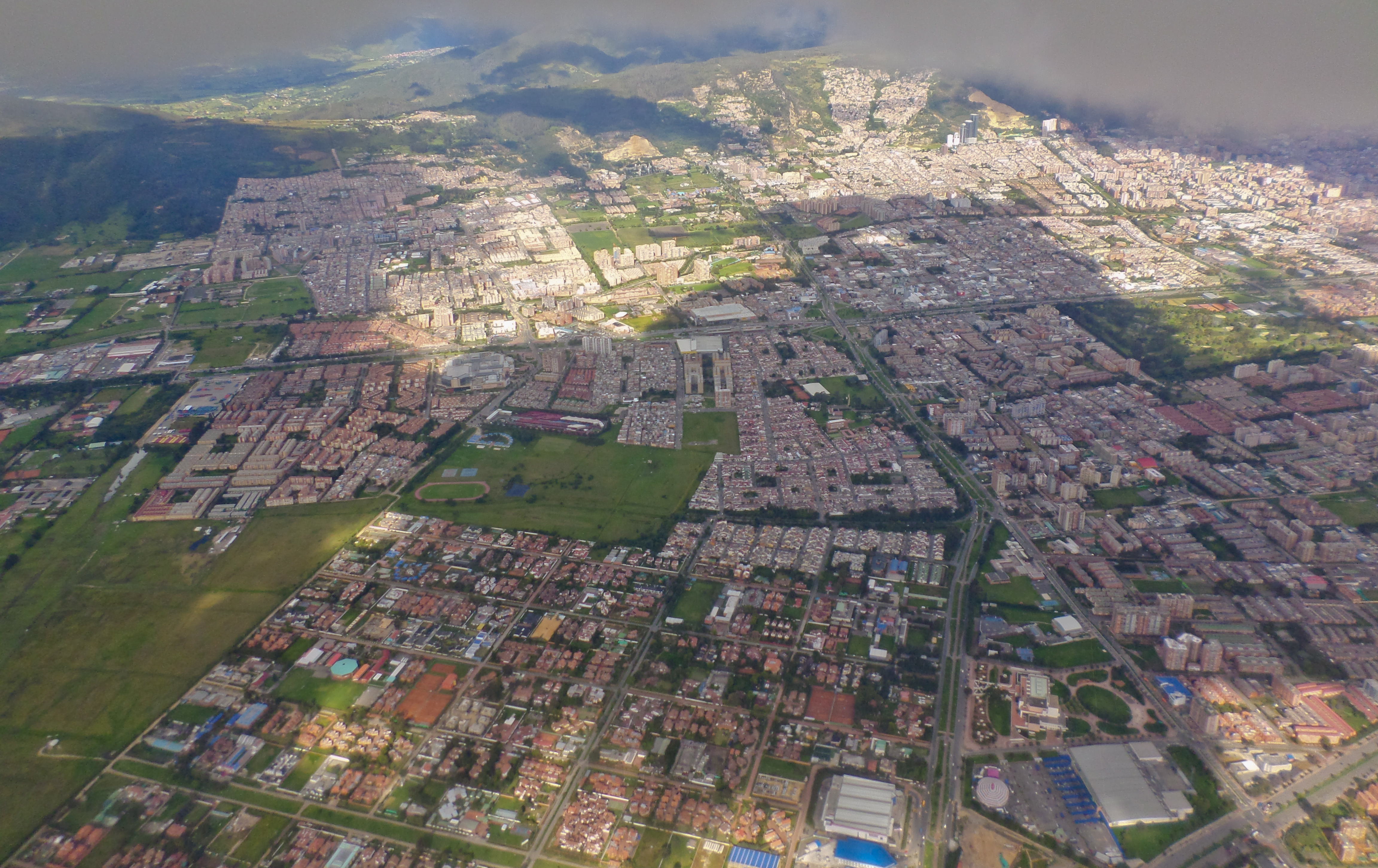 Aerial photographs of Bogotá